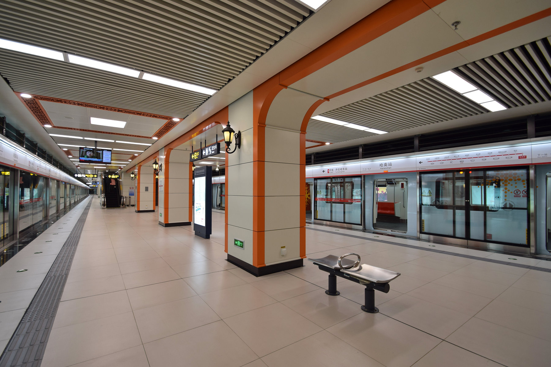 Platform of Hananzhan Station, Harbin Metro Line 1